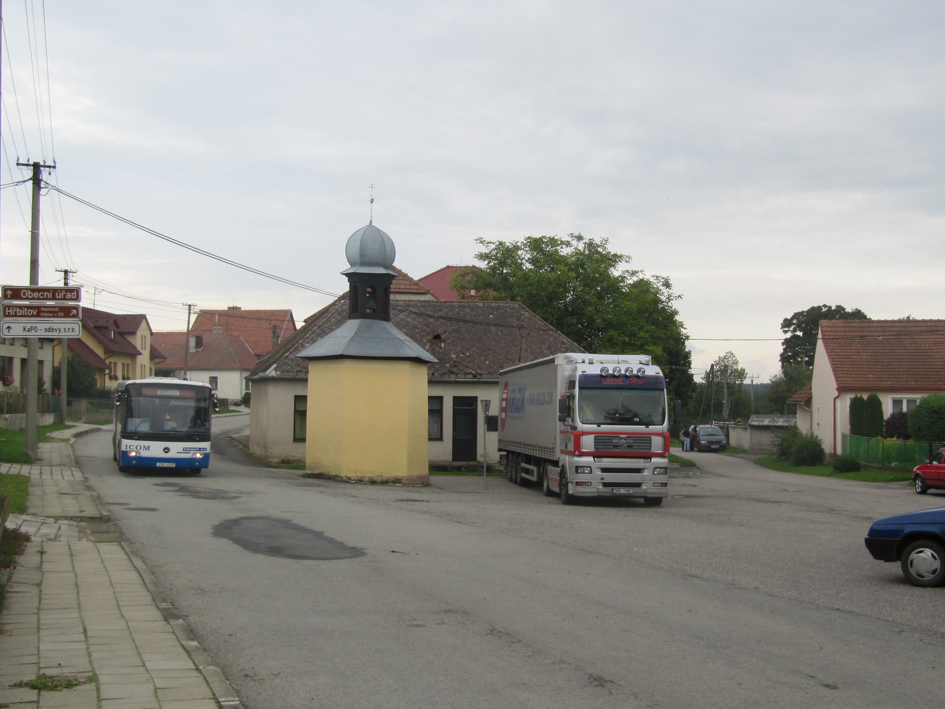 Hluboké in Třebíč District, Czech Republic.Common and chapel.